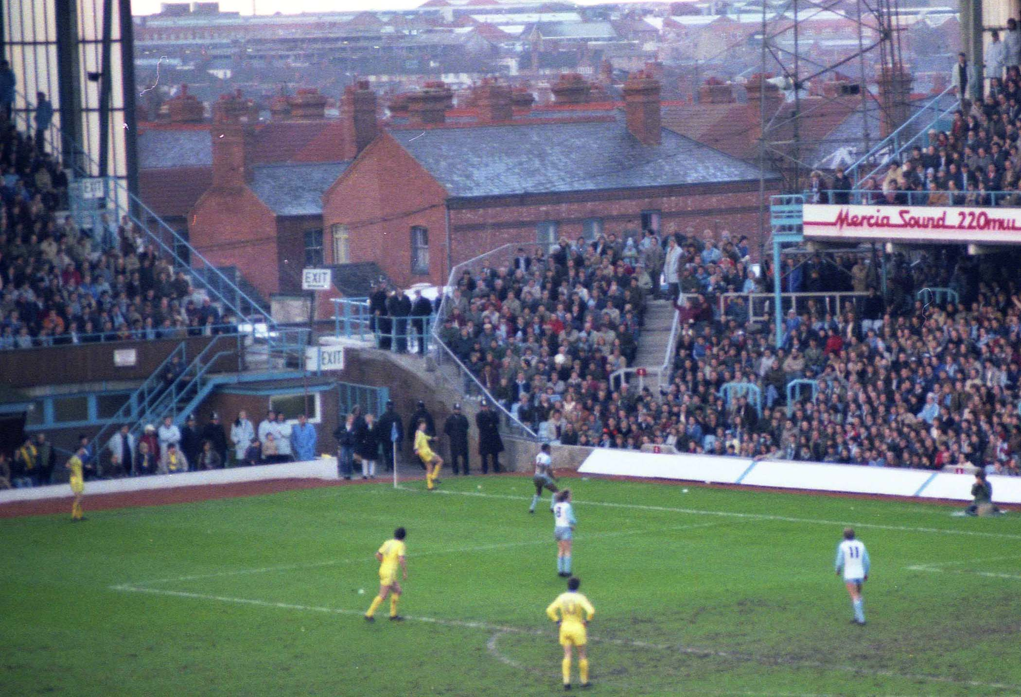 Highfield Road StadiumCoventry City moved from Highfield Road in 2005.